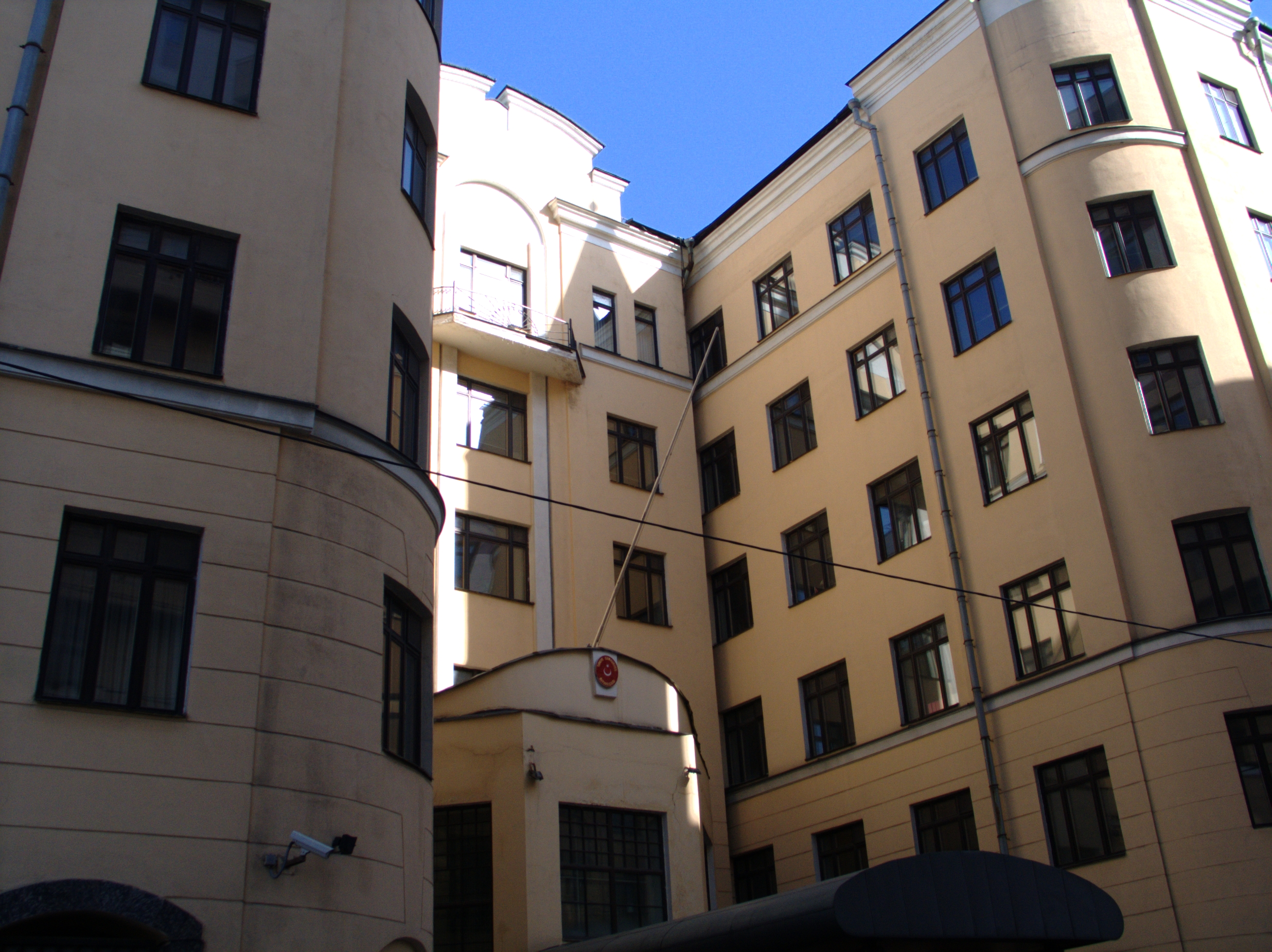 Building of the Embassy of Turkey in Moscow (Seventh Rostovskiy side-street 12).